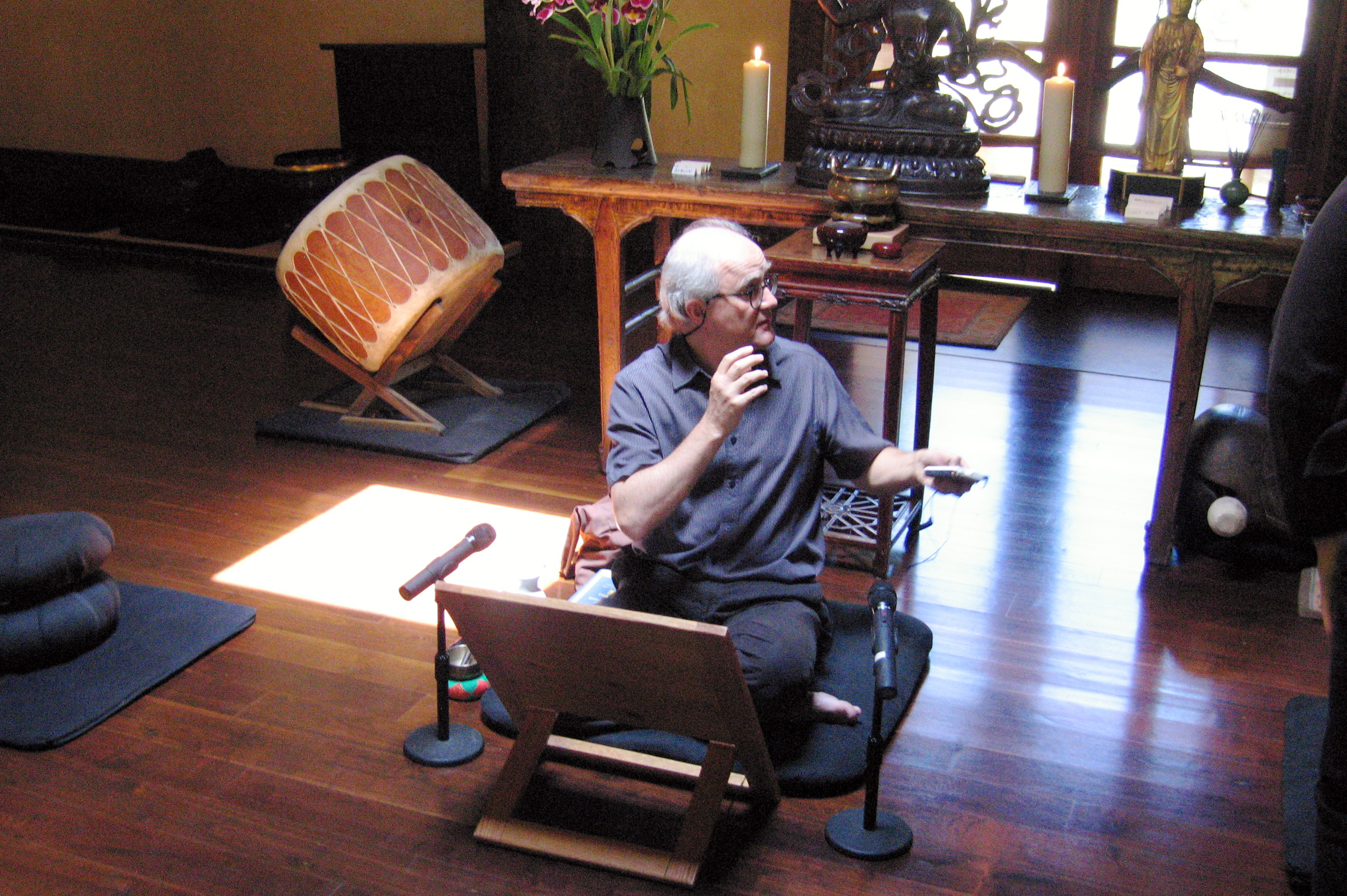 Stephen Batchelor (en) at Upaya Zen Center in New Mexico.IMG_9540.JPG